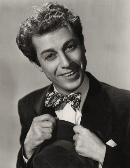 Vito Scotti in Life with Luigi TV series, The Dance episode - publicity still (cropped : see source)